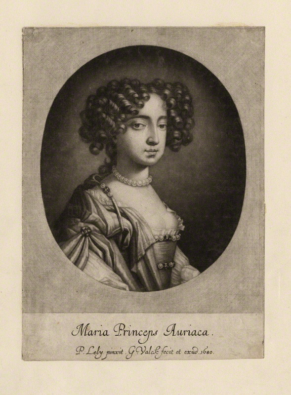 Mezzotint of Queen Mary II by and published by Gerard Valck, after Sir Peter Lely